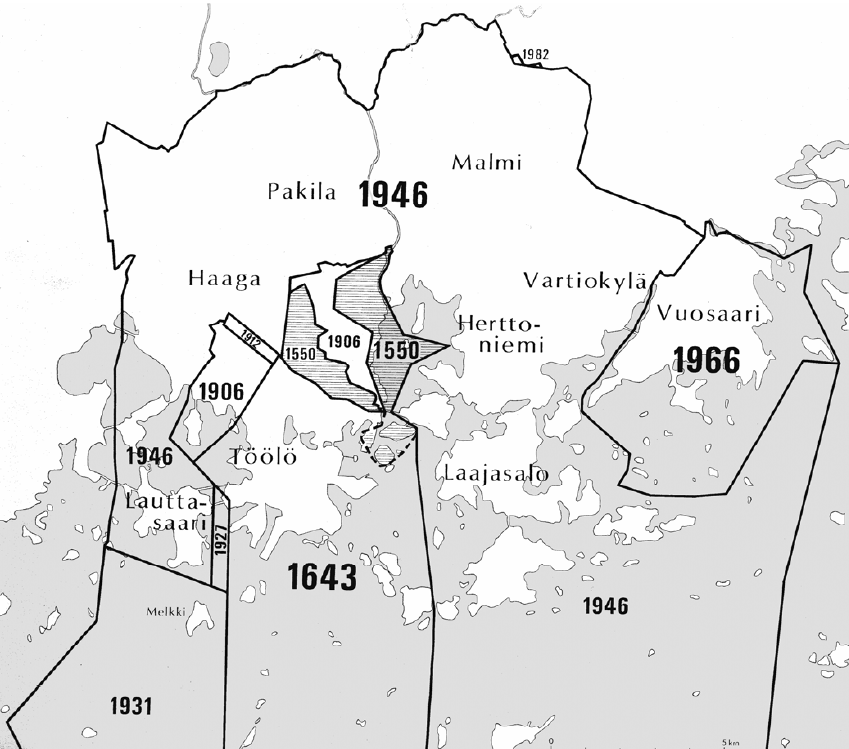 The territorial expansion of city of Helsinki